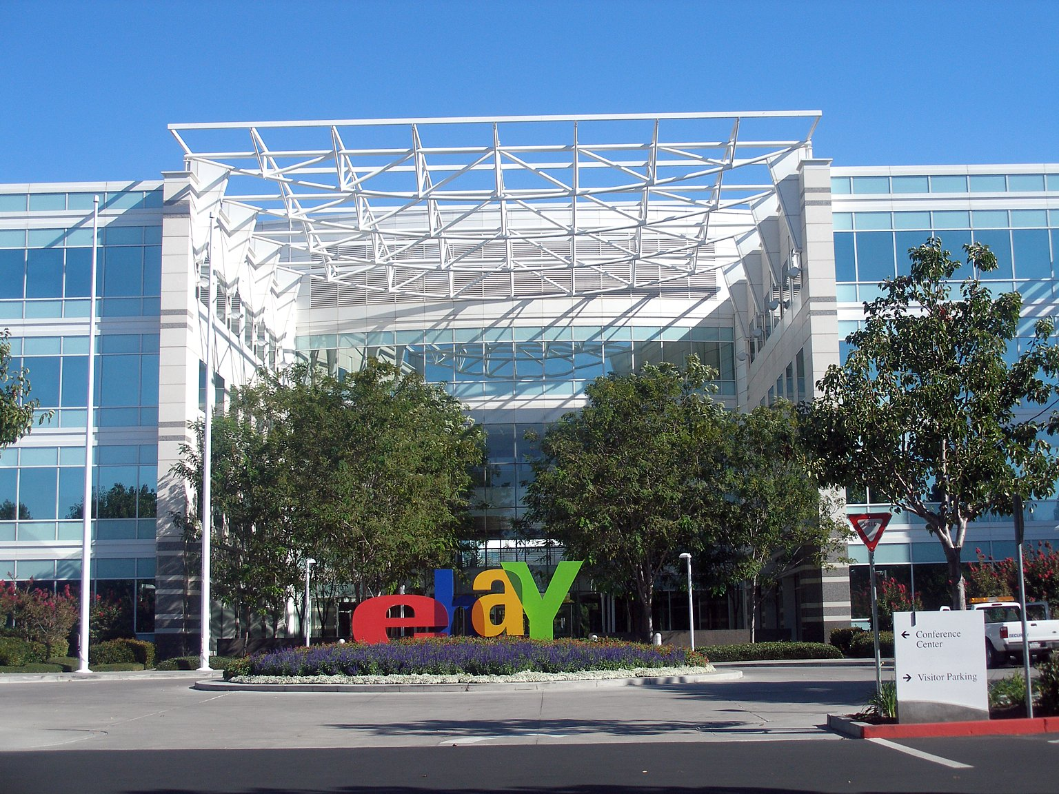 The satellite office campus of eBay in the North First Street neighborhood of San Jose. PayPal is based here, along with several other eBay divisions. Photographed on September 9, 2006 by user Coolcaesar.